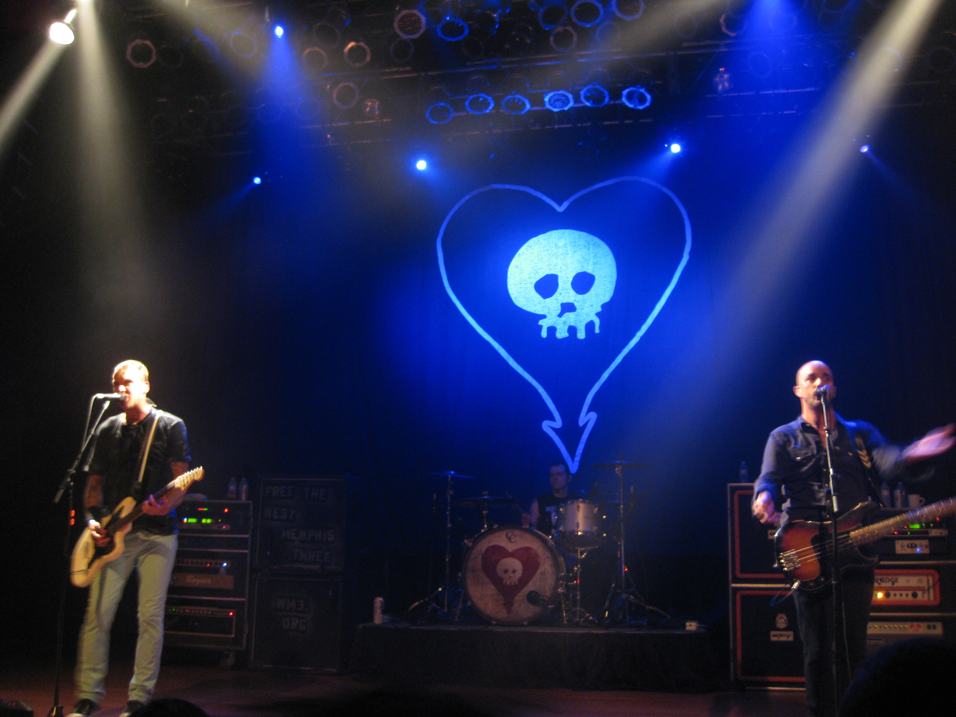 Alkaline Trio performing at the House of Blues in San Diego, California on July 20, 2011. Left to right: Singer/guitarist Matt Skiba, drummer Derek Grant, and singer/bassist Dan Andriano.